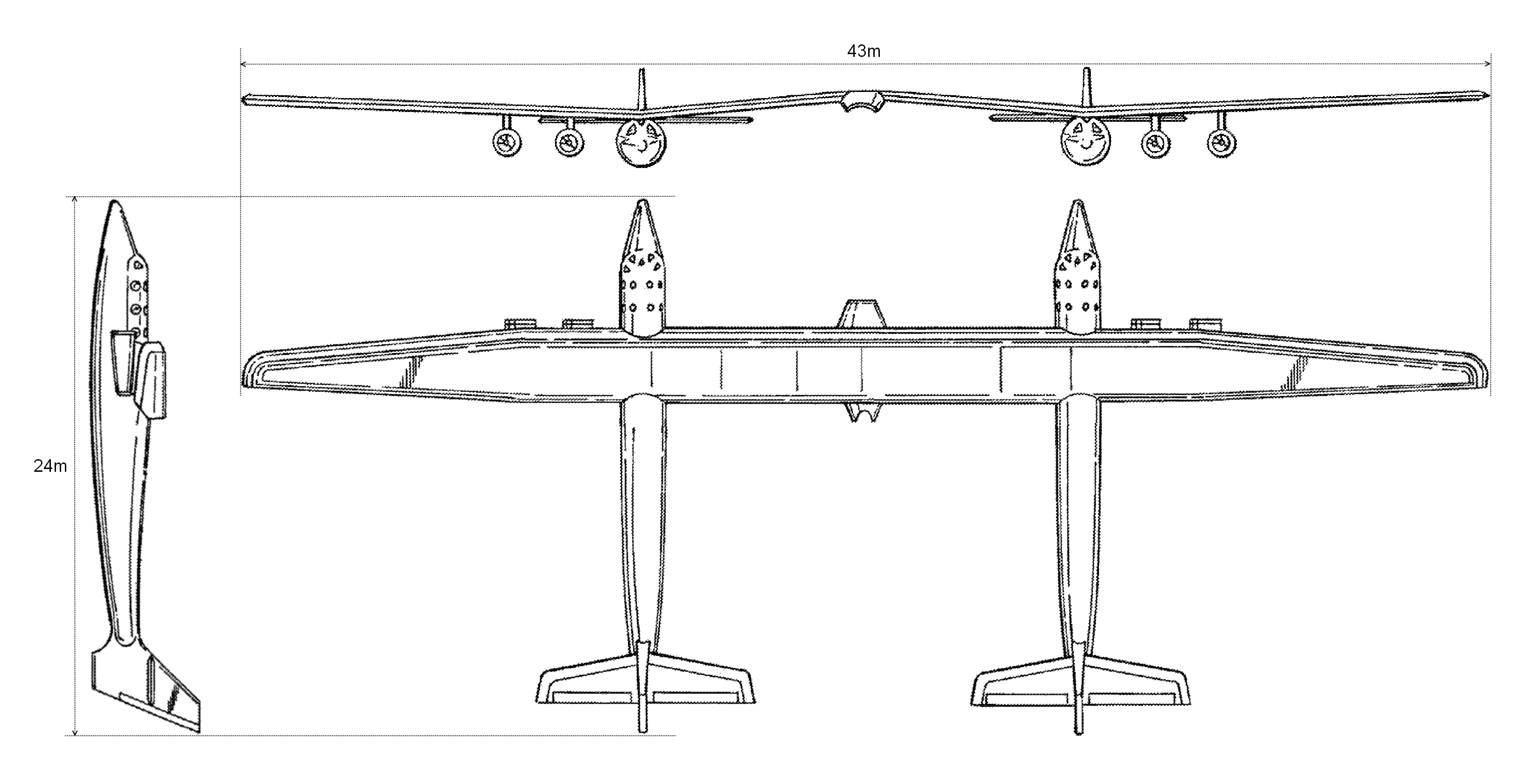 Planform drawings of Scaled Composites' Model 348 WhiteKnightTwo (WK2) jet-powered carrier aircraft which will be used to launch the SpaceShipTwo spacecraft. It is being developed by Scaled Composites as the first stage of Tier 1b, a two-stage to suborbital-space manned launch system. Derived from information in US Design Patent D612791.